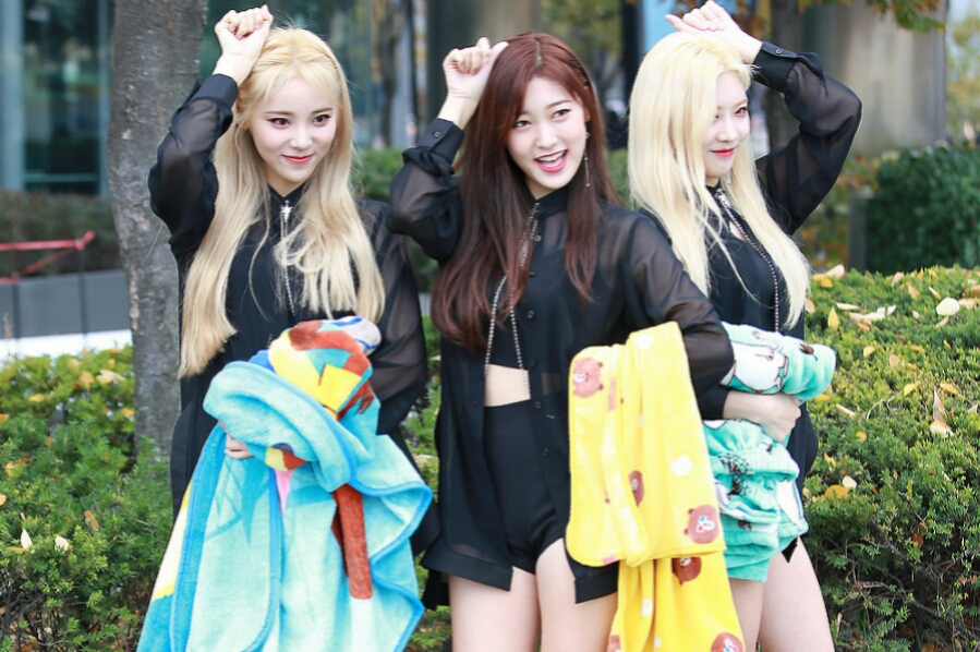 Odd Eye Circle at M!countdown Mini Fanmeeting on November 2, 2017.